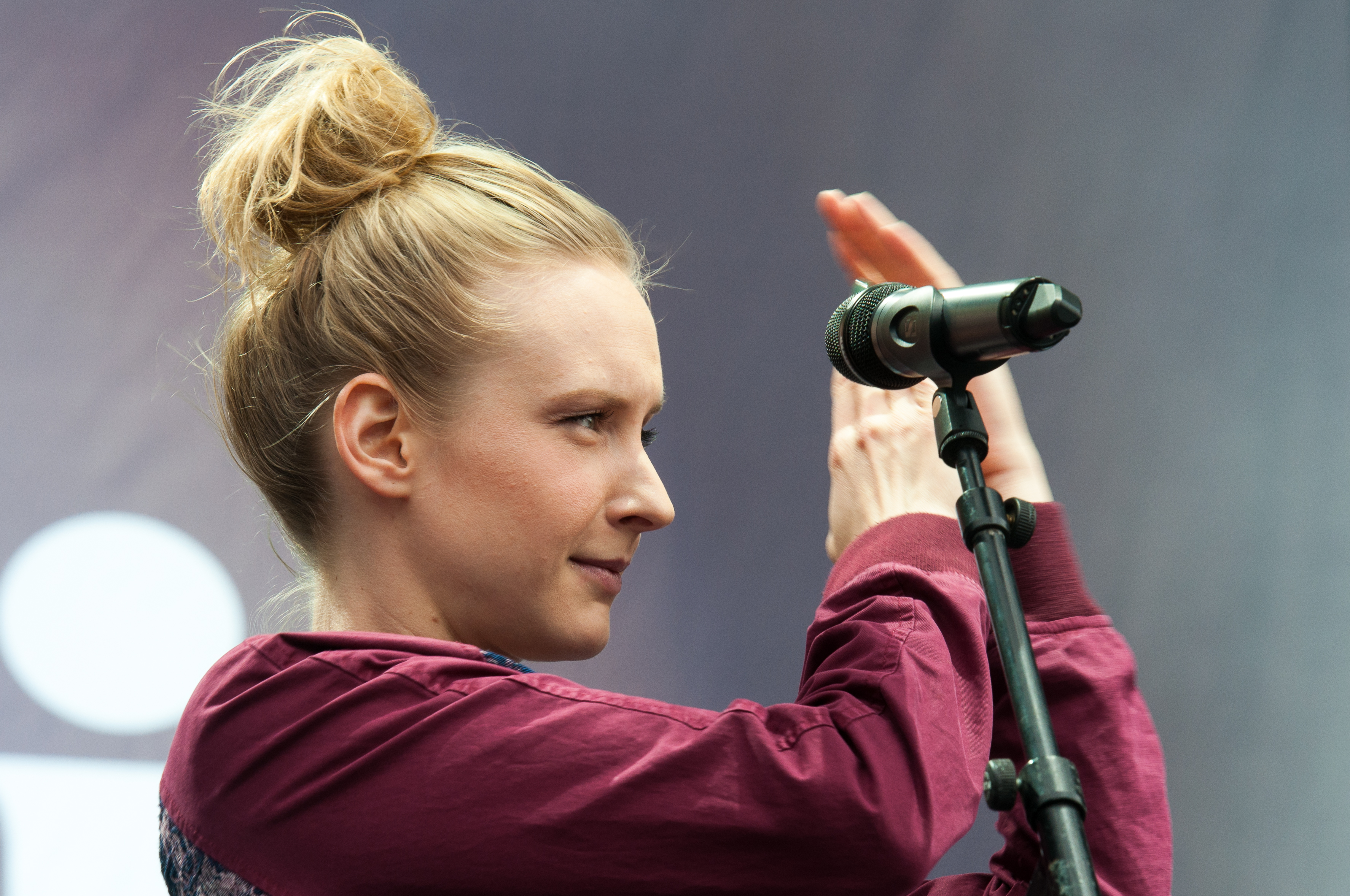 Leslie Clio at Rock am Ring 2013